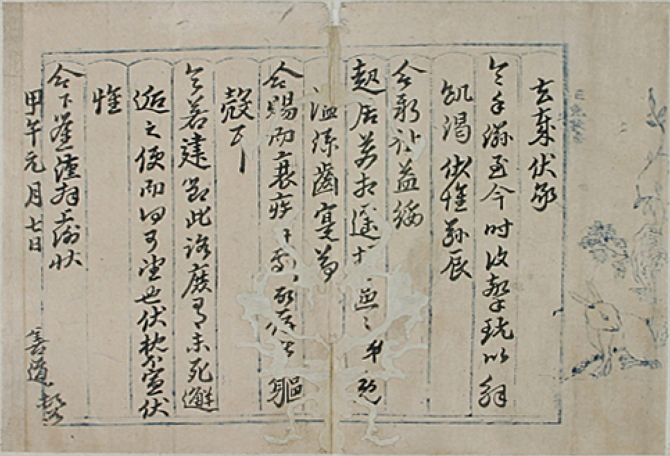 Letter of Yun Seondo